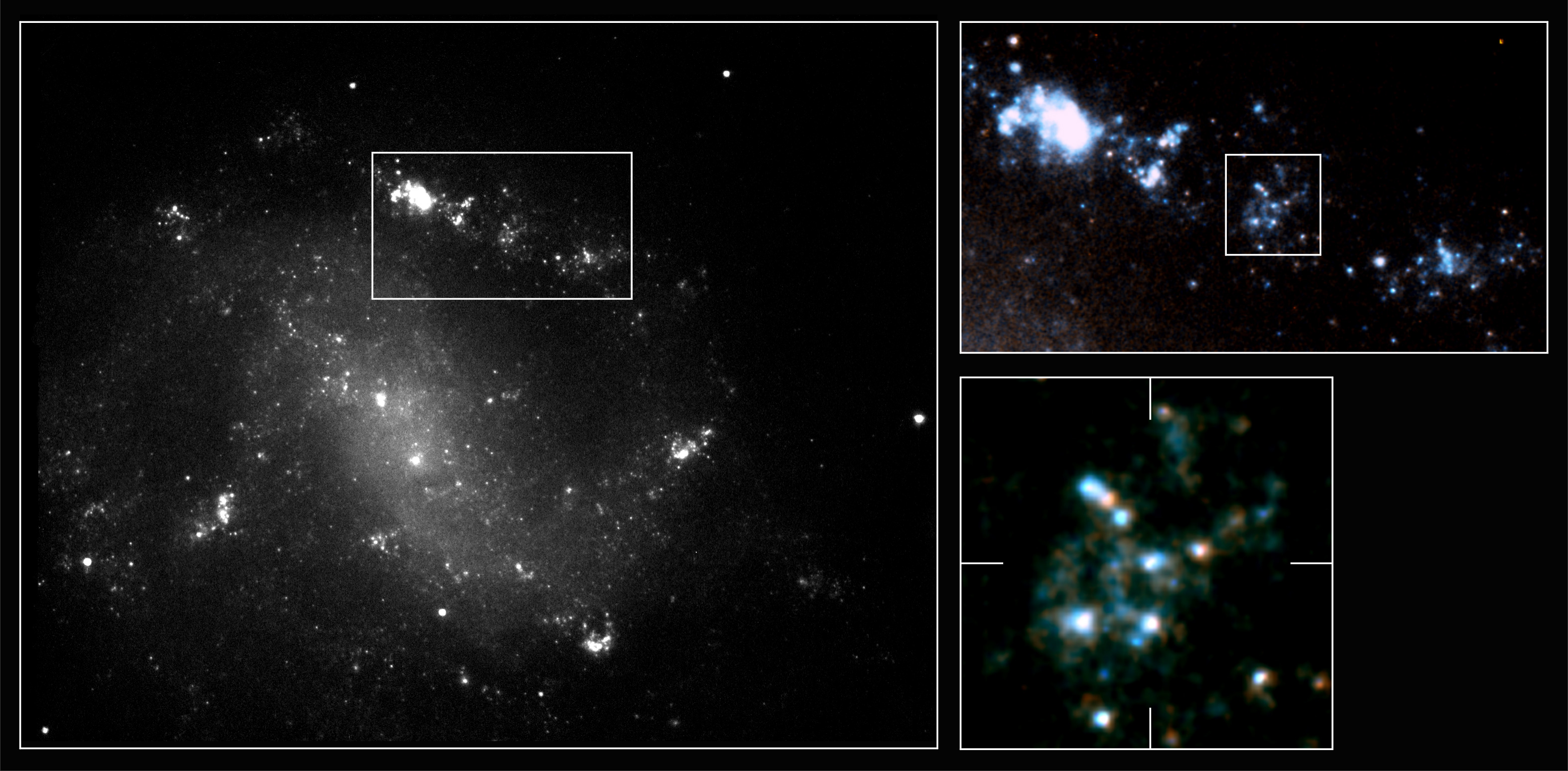 These images of the galaxy ESO 184-G82 are the most detailed images of a gamma-ray burst galaxy ever obtained. They were taken with the Space Telescope Imaging Spectrograph (STIS) onboard the NASA/ESA Hubble Space Telescope. The image on the left was taken with the STIS broad-band 'clear' filter. A composite image created using the same broad-band image (in blue) and an image obtained with the STIS red filter (in red) is shown on the right and details from this image are shown in the upper right and in higher detail below right. These new Hubble observations reveal that the host galaxy is actively star-forming and contains numerous clouds of hydrogen and regions teeming with activity from newly born hot stars. The galaxy is a spiral with loosely wound spiral arms and a large bar of gas and dust running through the centre. The sharpness of the Hubble Space Telescope's vision has enabled astronomers to discover that the gamma-ray burst and the supernova occurred in an active region in one of the galaxy's spiral arms. Here an underlying hydrogen gas complex is overlaid with several bright red giant stars. At the exact position of the gamma-ray burst (marked with lines on the lower right image) a very compact source of emission is seen. Most of this emission is probably the last remnant of the fading light from the supernova itself, but the scientists suspect that a faint underlying star cluster may contribute as well. This is a very important step forward in our understanding of gamma-ray bursts and their immediate surroundings and offers possible clues to their progenitors. The Hubble observations were carried out 12 June 2000. The colour composite was constructed from two exposures combined in chromatic order: 1240 seconds through the clear filter (in blue), and 1185 seconds through a red filter (in red). The fields of view of the three images clockwise are 45x35 arcseconds, 13x7 arcseconds and 2x2arcseconds.